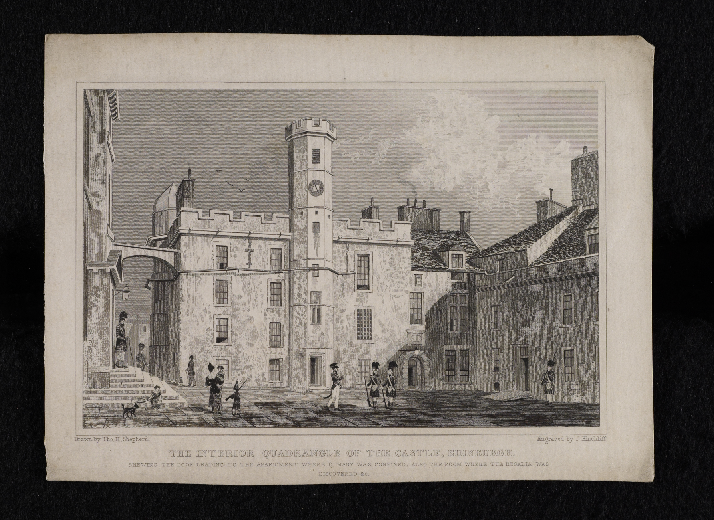 The interior quadrangle of the Castle, Edinburgh.